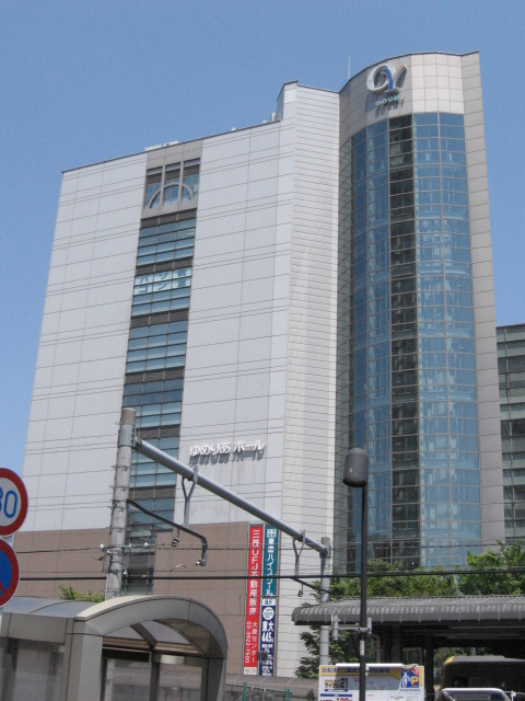 Yumeria Hall from Higashi-Oizumi of Nerima Tokyo.